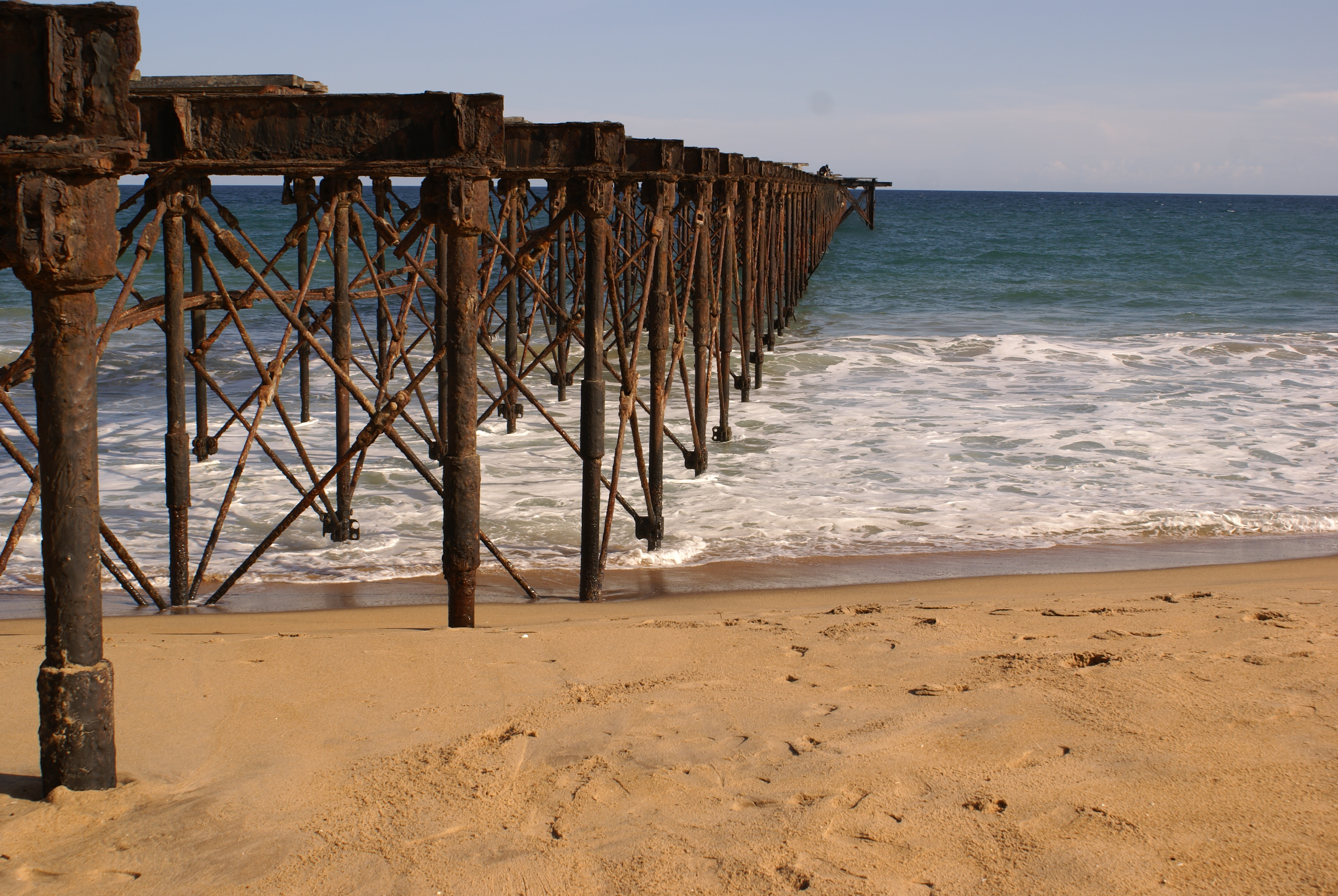 Lome Jetty, Togo